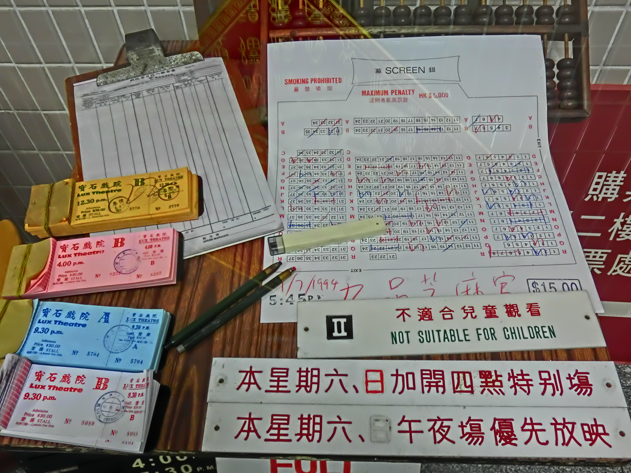 紅磡 寶石戲院, Lux Theatre, Hung Hom, Hong Kong